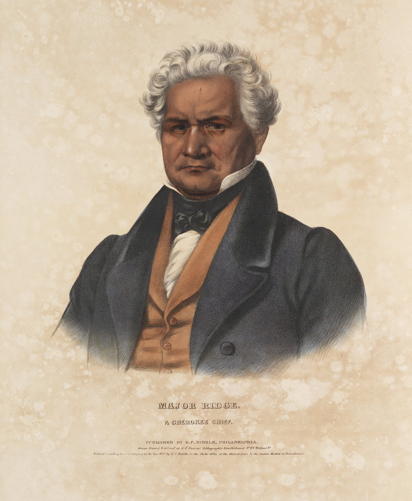 Title: Major Ridge. A Cherokee Chief. Creator: Bowen, John T., approximately 1801-1856? (lithographer) Date: 1842 Part Of: of the Indian tribes of North America, with biographical sketches and anecdotes of the principal chiefs/ Series: of the Indian tribes of North America, Volume 1/ Description: This portrait is part of History of the Indian Tribes of North America, with Biographical Sketches and Anecdotes of the Principal Chiefs. Embellished with One Hundred and Twenty Portraits, from the Indian Gallery in the Department of War, at Washington. By Thomas L. M'Kenney [McKenney], Late of the Indian Department, Washington, and James Hall, Esq. of Cincinnati. Volume 1. Philadelphia: Published by Daniel Rice and James G. Clark, 132 Arch Street. 1842. Physical Description: 1 print: lithograph, part of 1 volume; 52 x 38 cm File: vault_folio_5_e77_m13_1842_1_180c_opt.jpg Rights: Please cite DeGolyer Library, Southern Methodist University when using this file. A high-resolution version of this file may be obtained for a fee. For details see the web page. For other information, . For more information, View North America: Photographs, Manuscripts, and Imprints